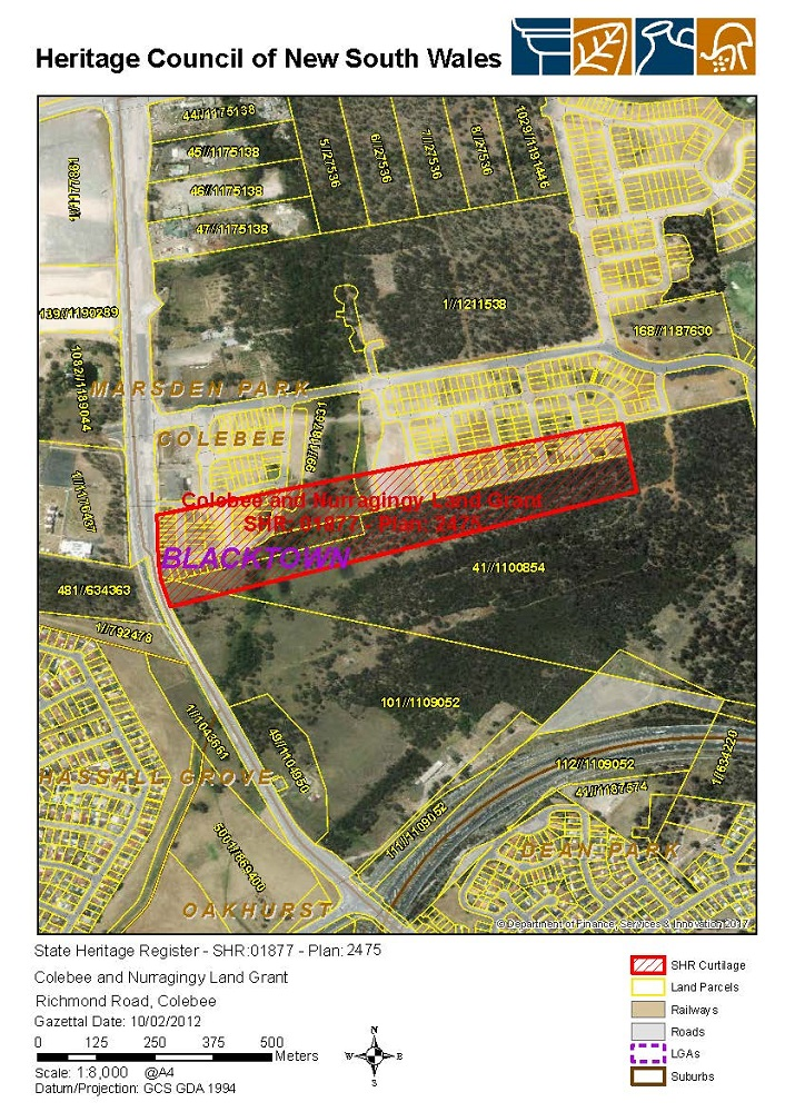 Colebee and Nurragingy Land Grant: SHR Plan 2475